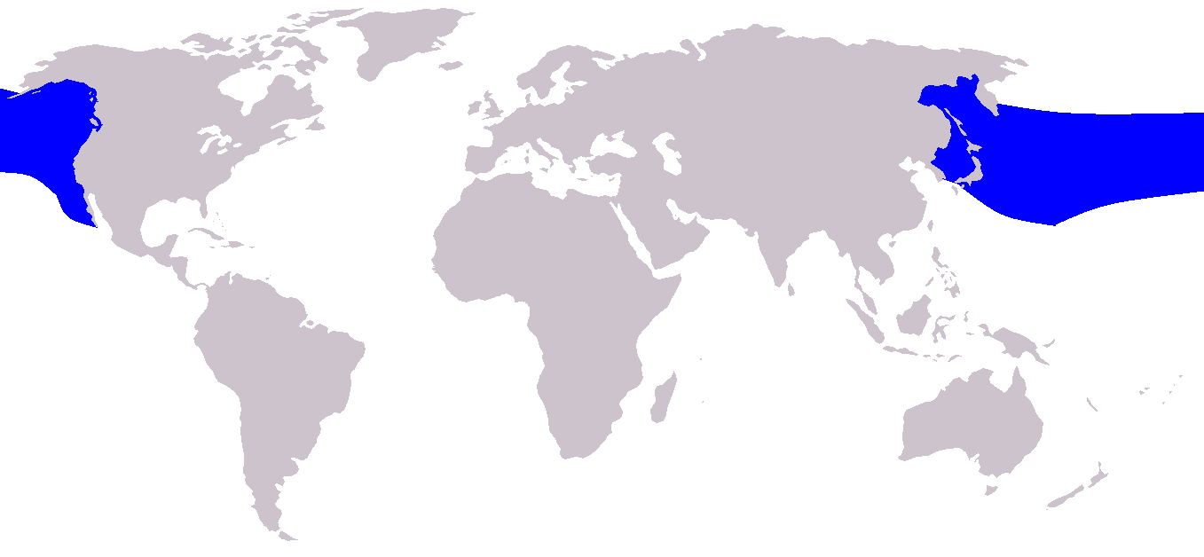 Distribution of Berardius bairdii